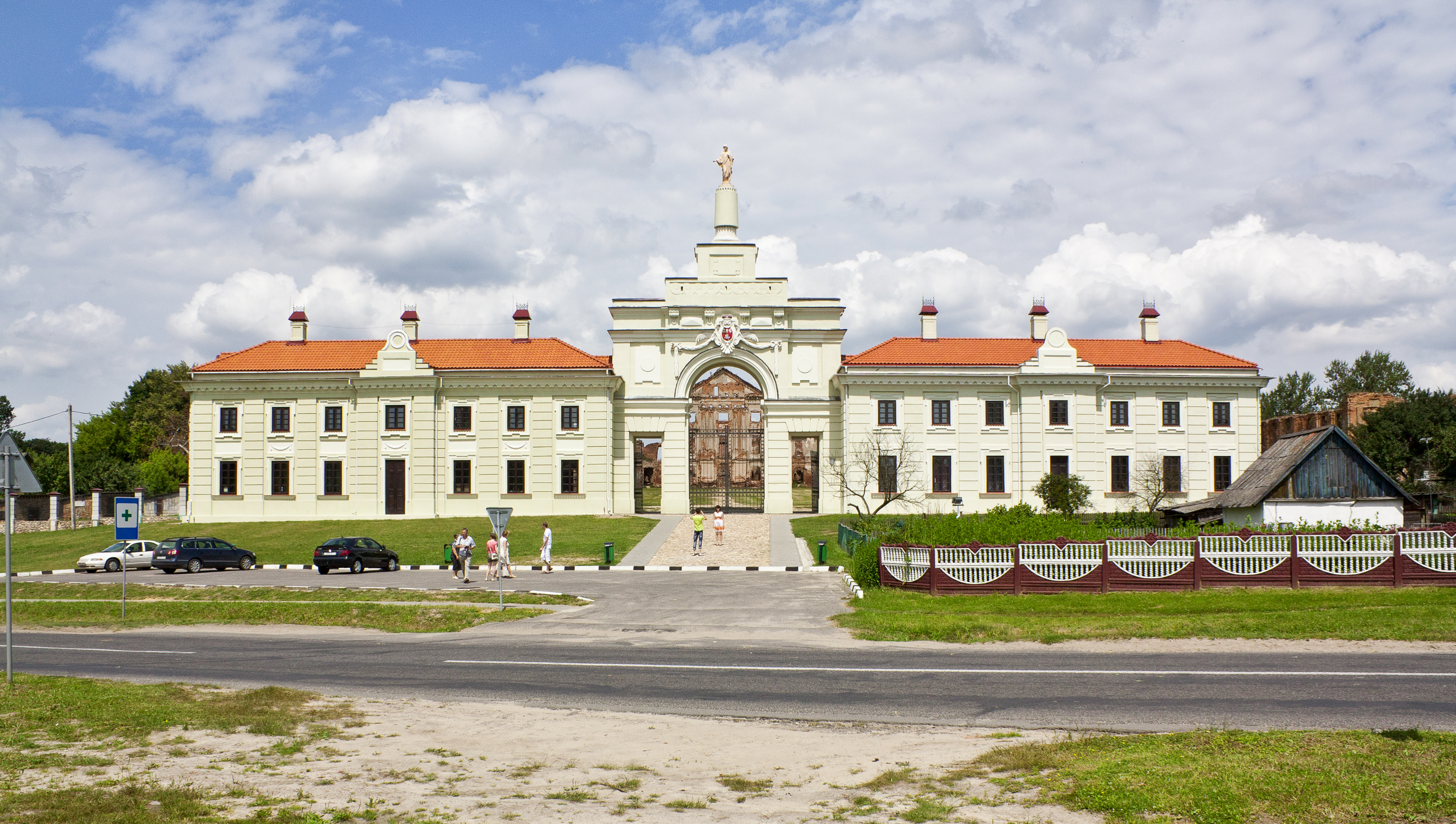 Gate of the Sapieha Palace in Ružany